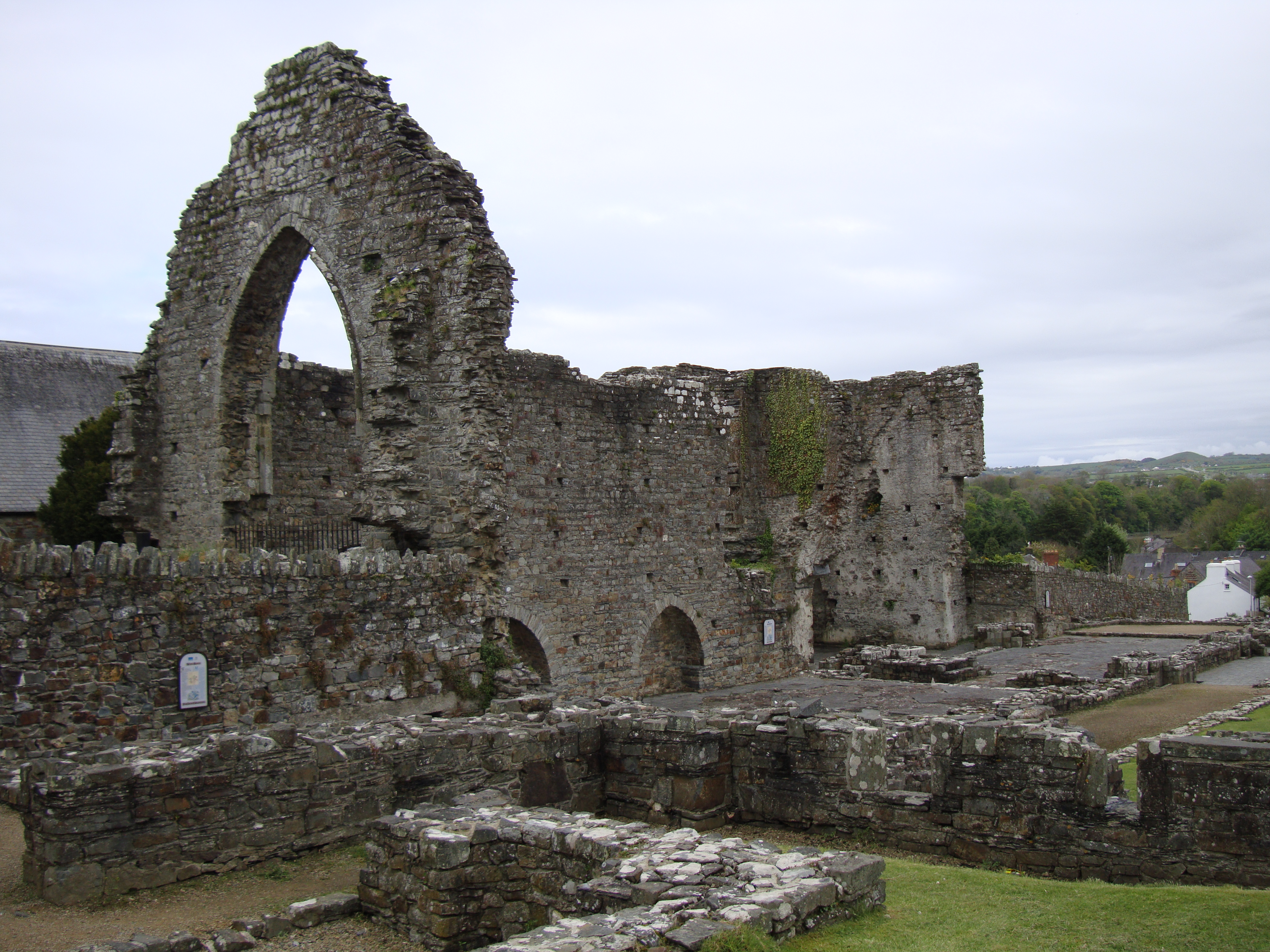 Photograph of St Dogmaels Abbey, Pembrokeshire, Wales